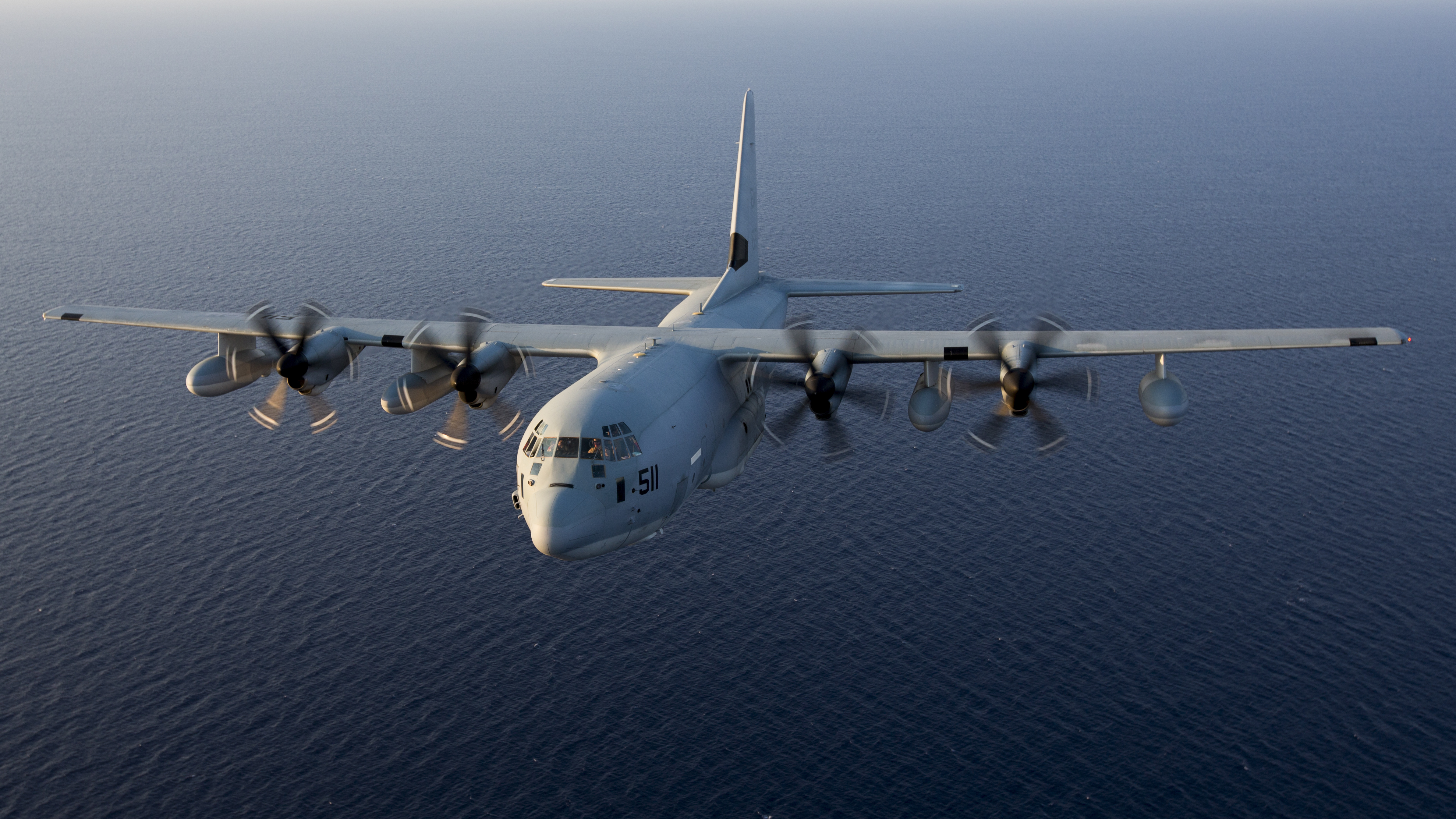 A KC-130J attached to Special-Purpose Marine Air-Ground Task Force Crisis Response from Marine Aerial Refueler Transport Squadron-352, flies over the Mediterranean Sea, June 15, 2014. KC-130Js from SP-MAGTF Crisis Response flew to the USS Bataan in order to conduct aerial refueling drills with the 22nd Marine Expeditionary Unit’s CH-53Es. Marines with SP-MAGTF Crisis Response are currently positioned in Italy to be able to protect U.S. personnel and facilities on U.S. installations in North Africa in the event they are needed for a response mission. (Official Marine Corps photo by Staff Sgt. Tanner M. Iskra, SP-MAGTF Crisis Response, 2nd Marine Division Combat Camera/Released)